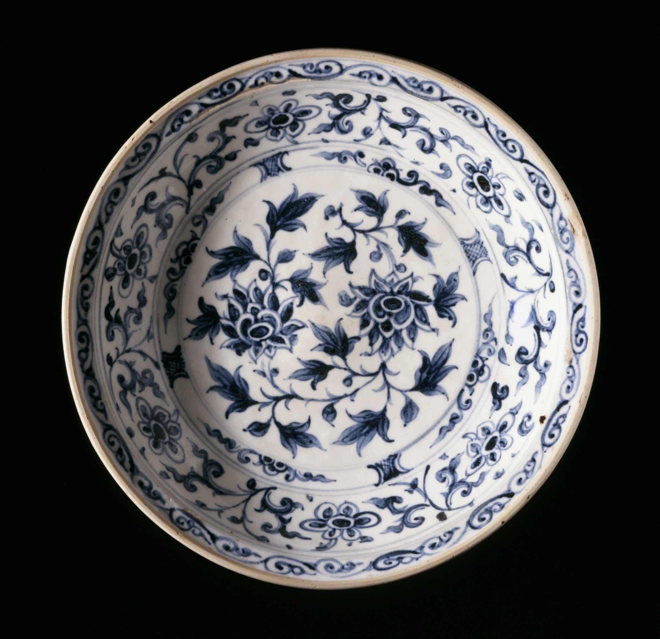 Vietnam, 1450-1550 Furnishings; Serviceware Wheel-thrown stoneware with cream slip, underglaze blue painted decoration, and clear glaze Gift of Ambassador and Mrs. Edward E. Masters (M.84.213.254) South and Southeast Asian Art